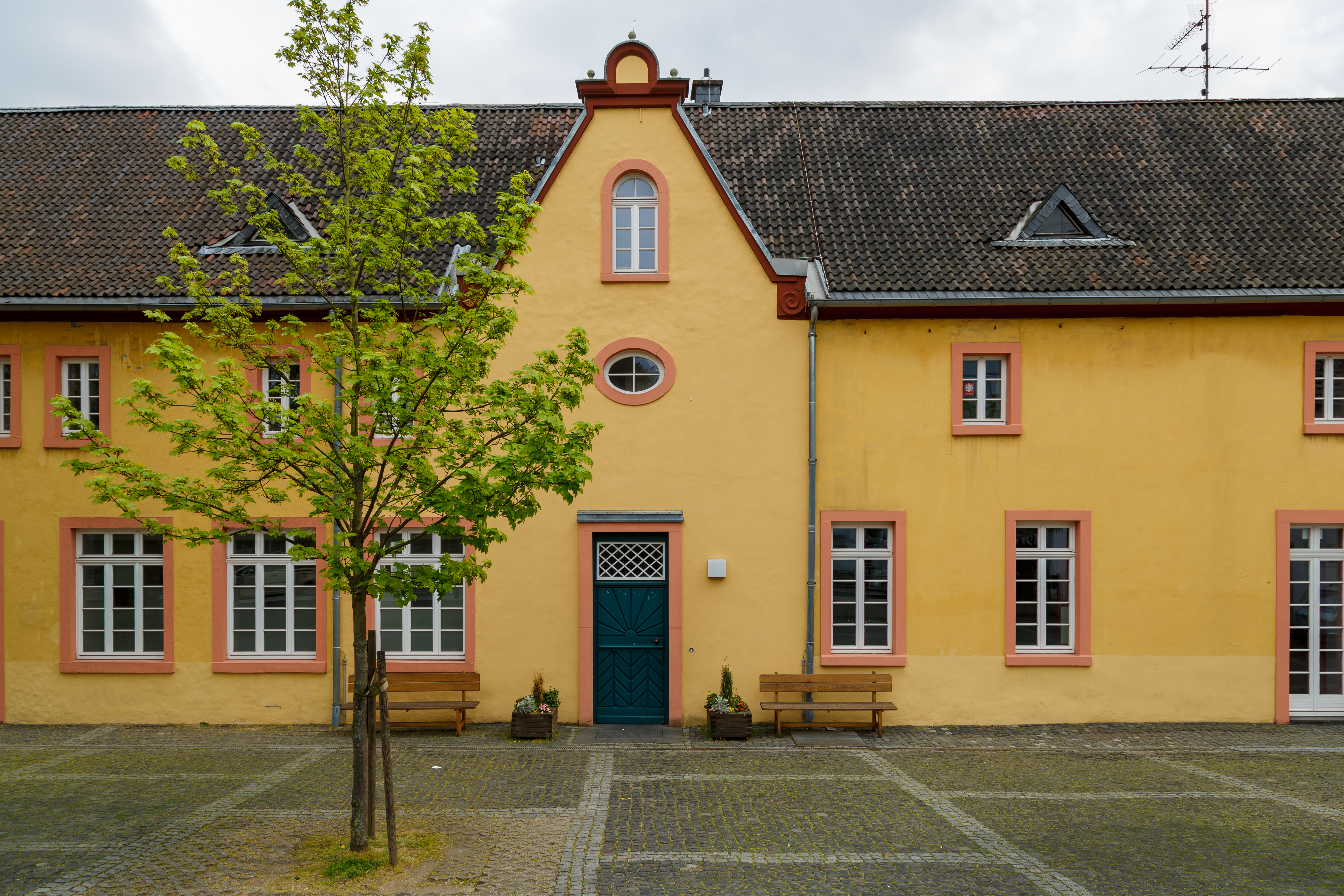 Rösrath, Listed monument number 44, Hauptstrasse 62: Augustinushaus, a former part of Rösrath Abbey. This is a photograph of an architectural monument.